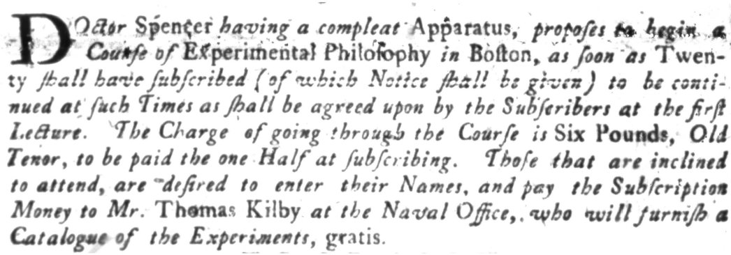 Archibald Spencer advertisement of course on electricity as a lecturer called Experimental Philosophy